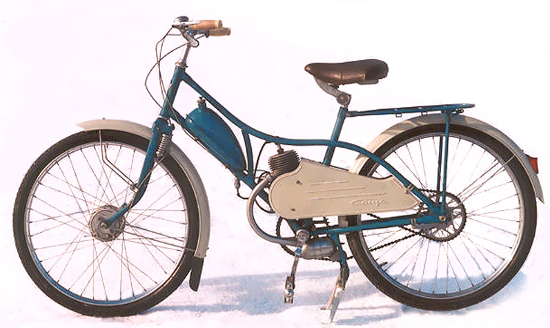 USSR moped Gauja, 1963.